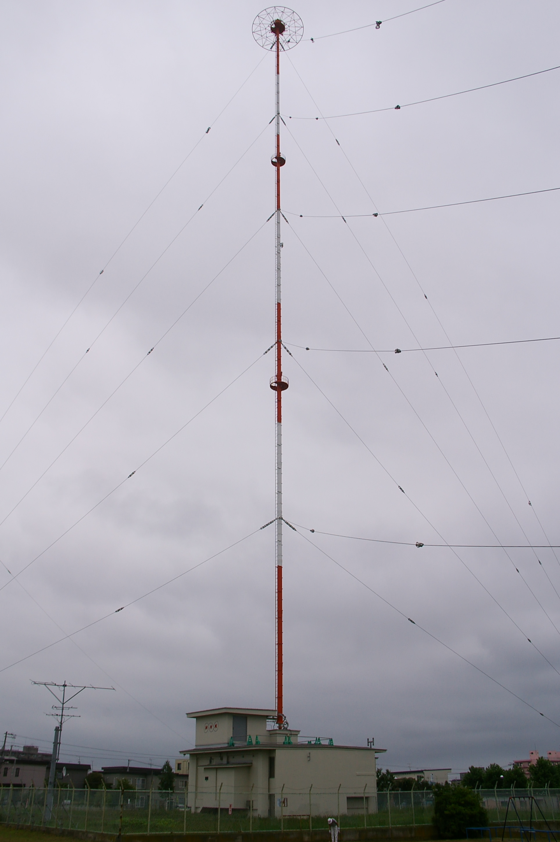 NHK Kameda Radio Transmitter Station in Hakodate City, Hokkaido, Japan NHK Radio 1:JOVK 675kHz 5kW NHK Radio 2:JOVB 1467kHz 1kW